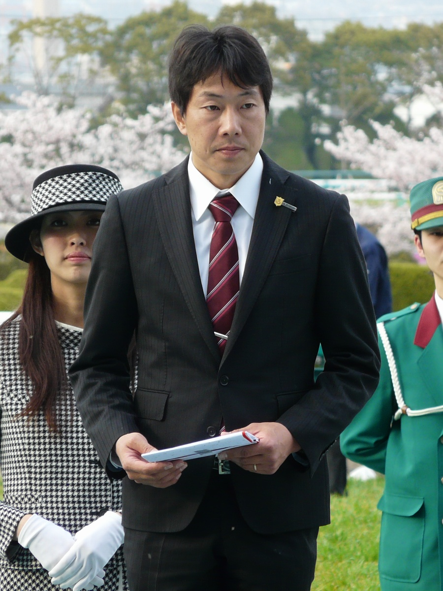 Akira-Murayama20110410